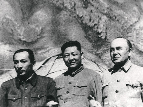 In July 1952, Xi Zhongxun was appointed by the Central Committee of the CCP to Xinjiang Province to deal with the affairs of the insurgency of Osman Batur. This is Xi Zhongxun (middle), Saifuddin Azizi (left, vice chairman of Xinjiang Province), Burhan Shahidi(right, chairman of Xinjiang Province).